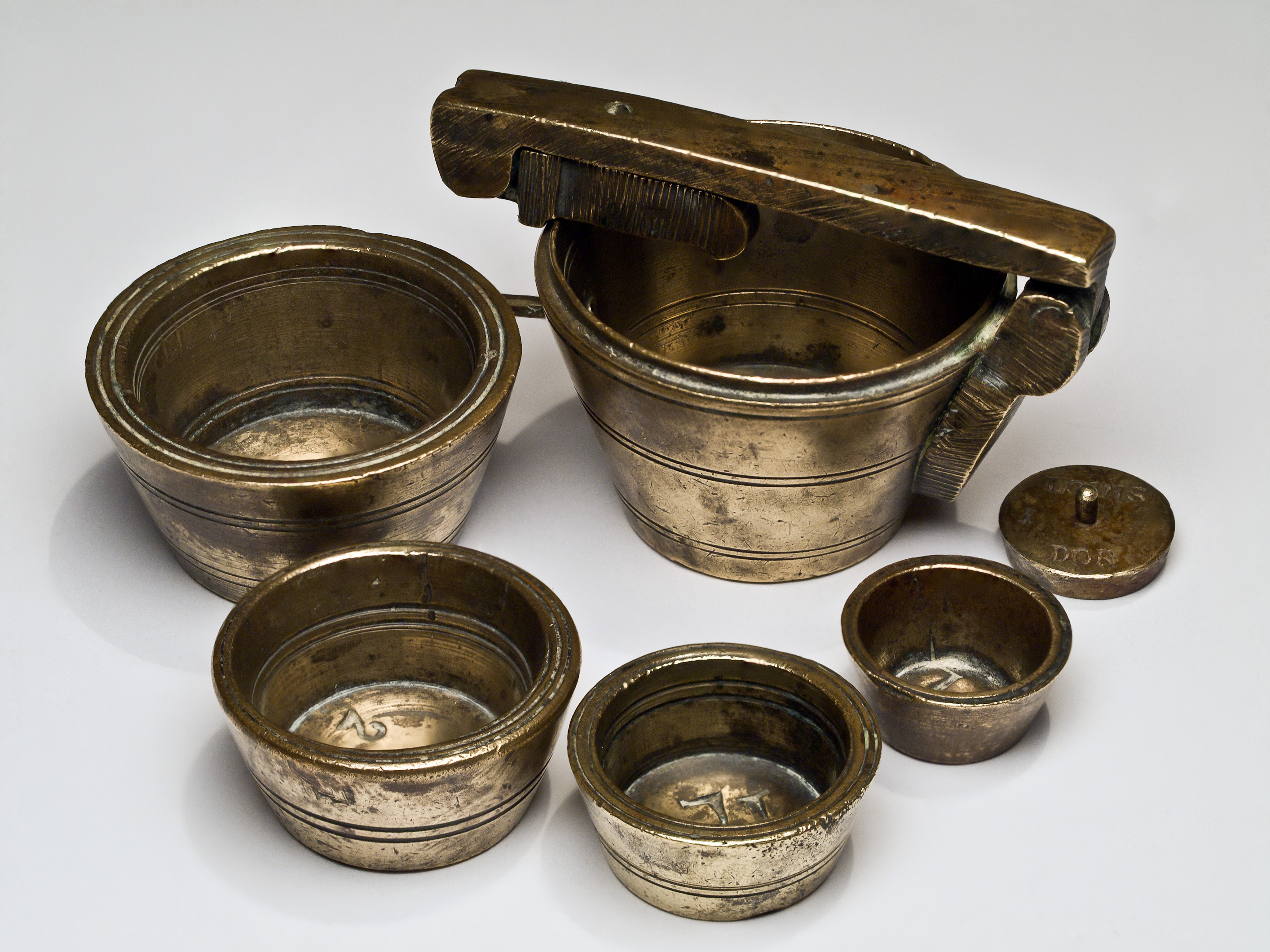 Nested cup weight. These were used, among others, by pharmacists to weigh medicine. Each smaller one weighs half of the bigger one.